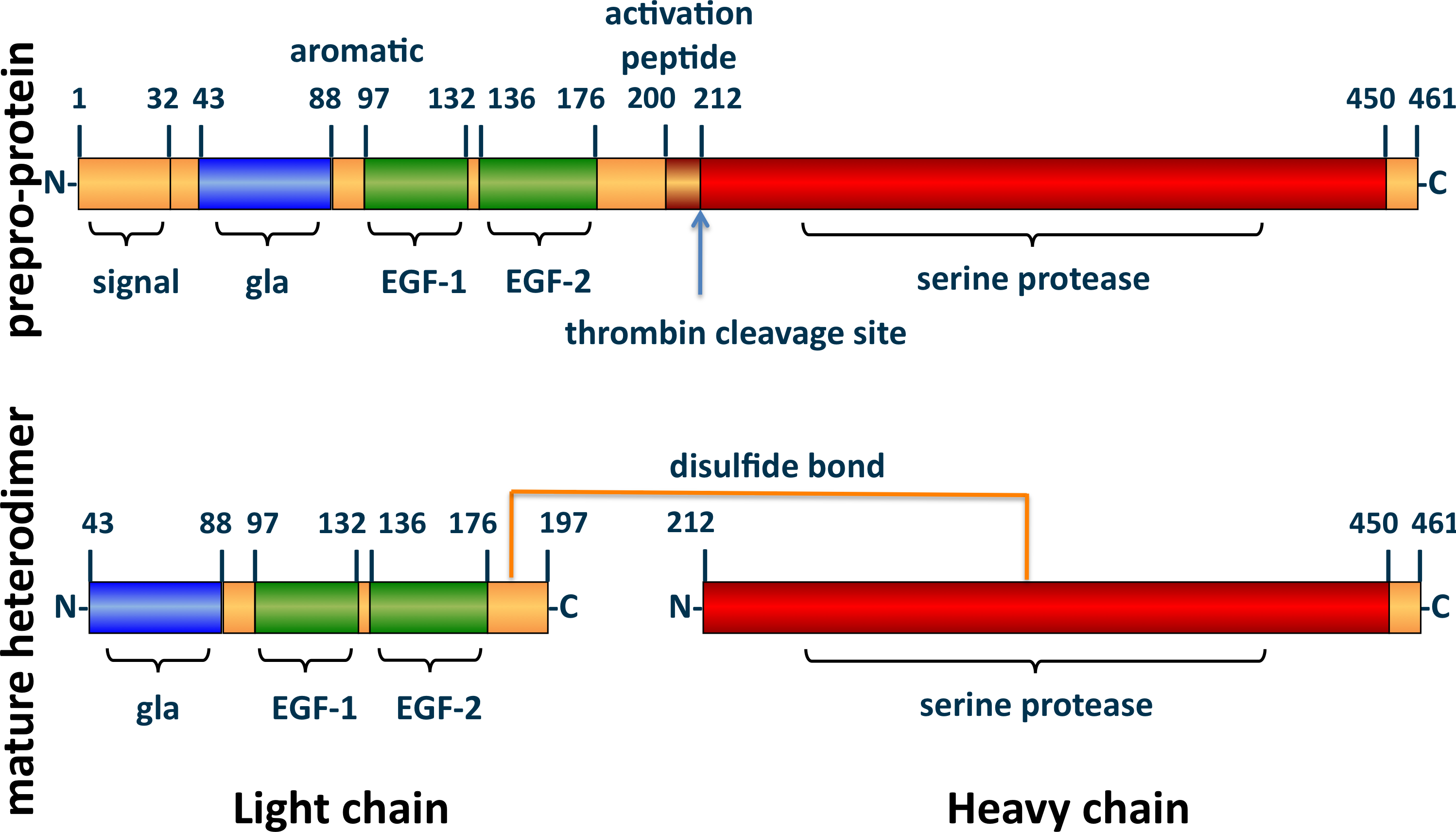 Schematic diagram of the preproprotein C (top) and mature heterodimer (bottom) based on the sequence annotation contained in UniProt P04070.